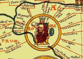 Part of Roma from Tabula Peutingeriana, 1-4th century CE. Facsimile edition by Conradi Millieri, 1887/1888.